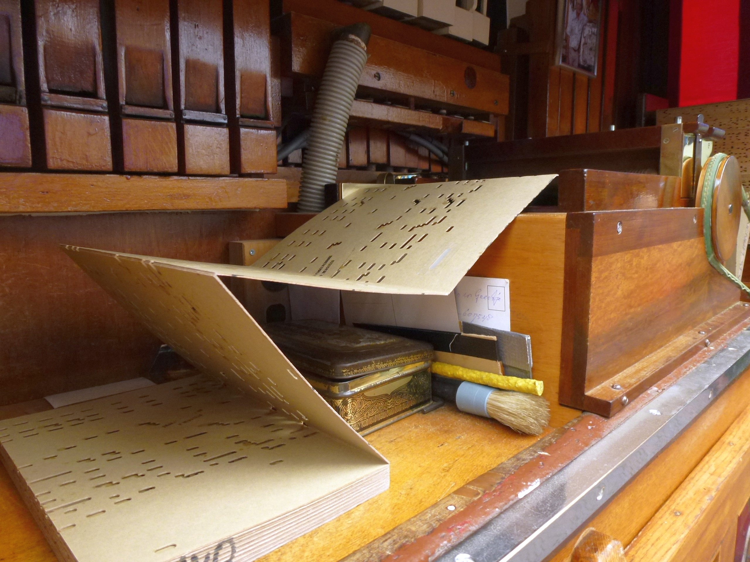 Book music for the mechanical organ 'De Turk', in use